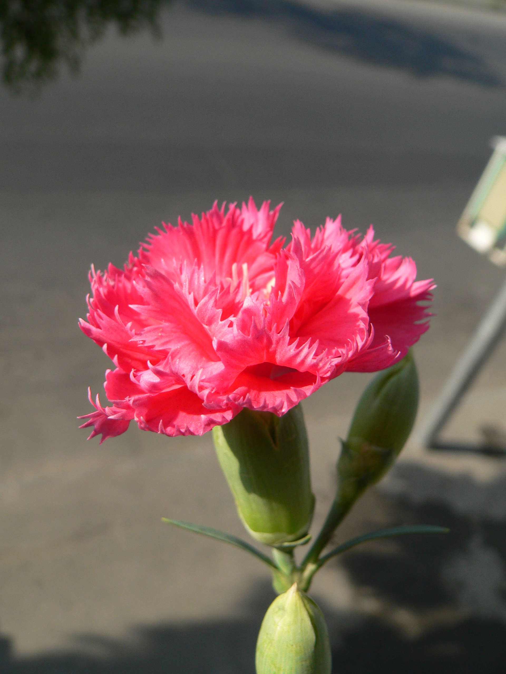 Dianthus caryophyllus var schabaud